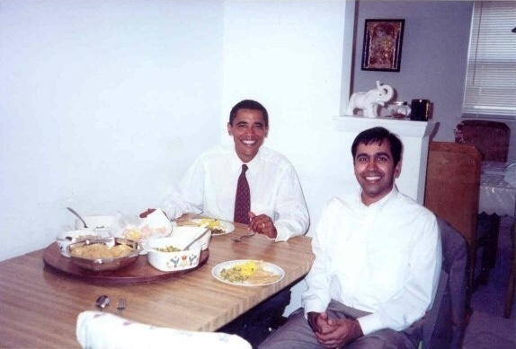 Raja Krishnamoorthi and Barack Obama in Raja's childhood home in Peoria in July 2002.